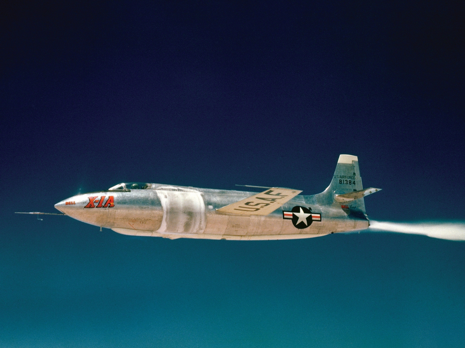 Experimental aircraft Bell X-1A in flight